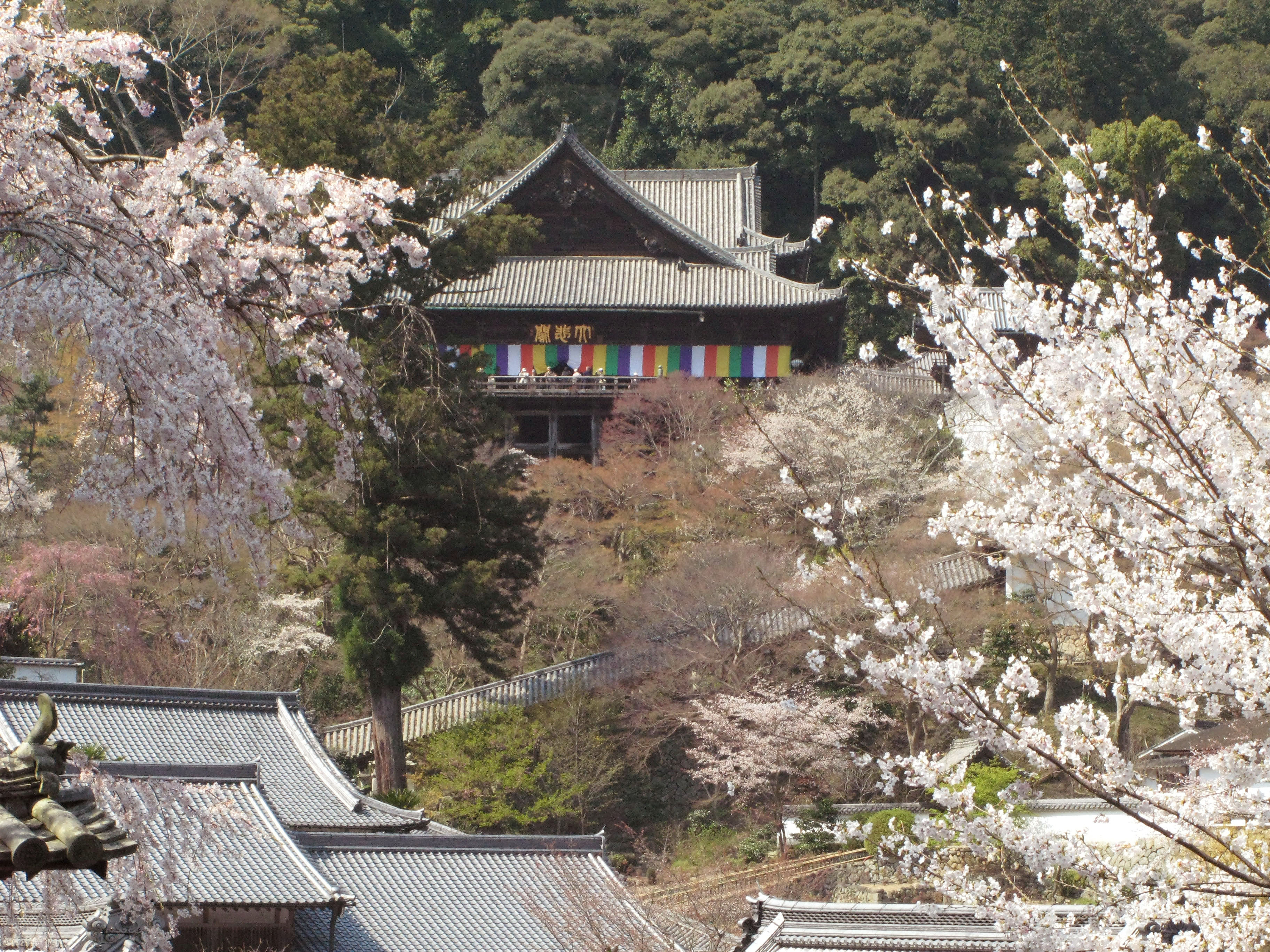 Hase-dera the cherry trees of the main hall of a Buddhist temple